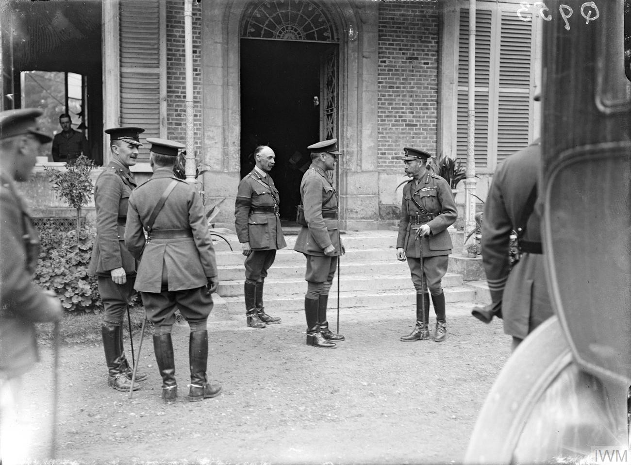 The Battle of the Somme, July-november 1916 King George V, General Sir Douglas Haig, the C-in-C of the British Army, and General Sir Henry Rawlinson, the Commander of the 4th Army, at Querrieu, 10th August 1916.